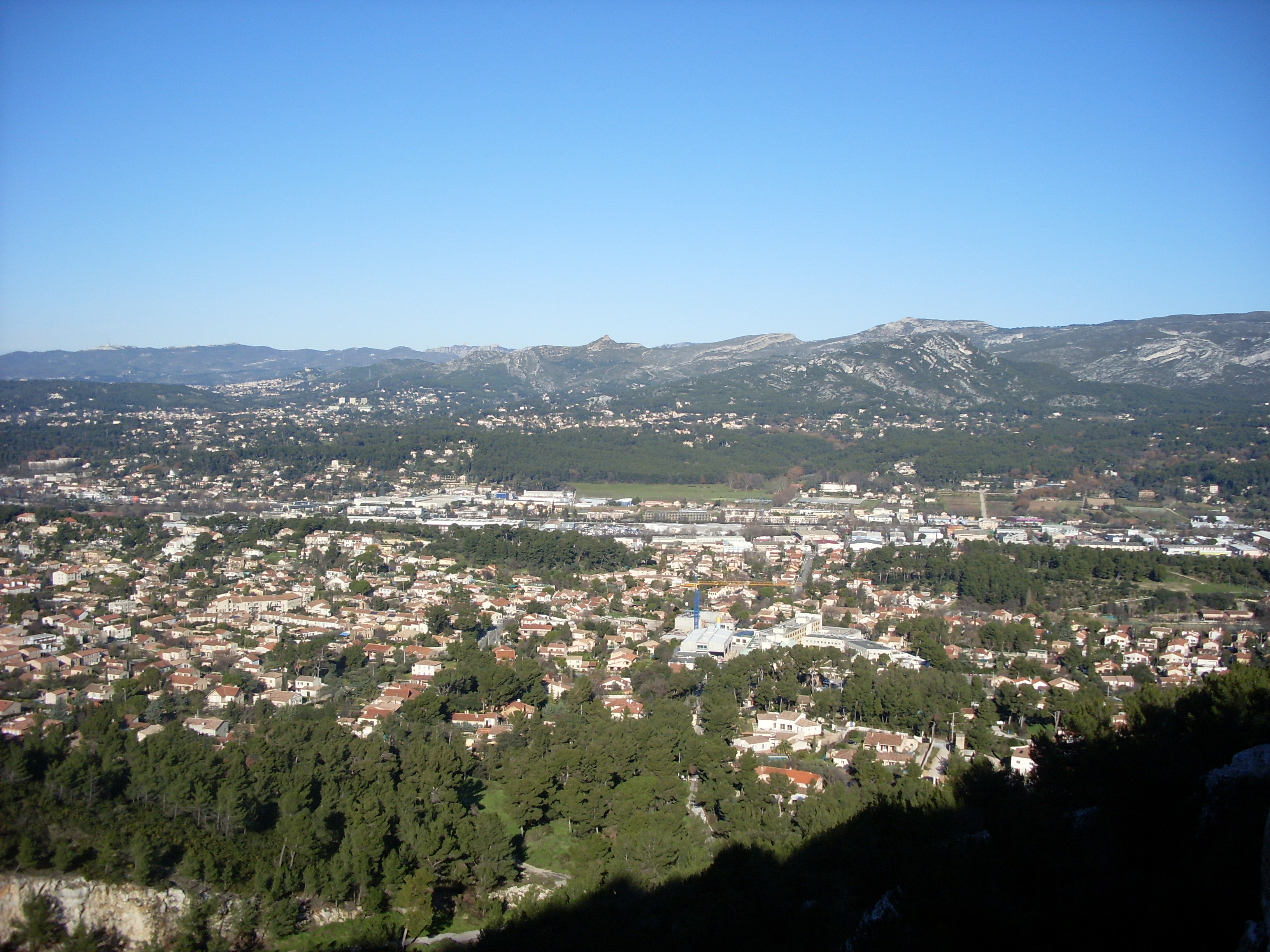 la penne-sur-huveaune depuis le sommet du télégraphe.